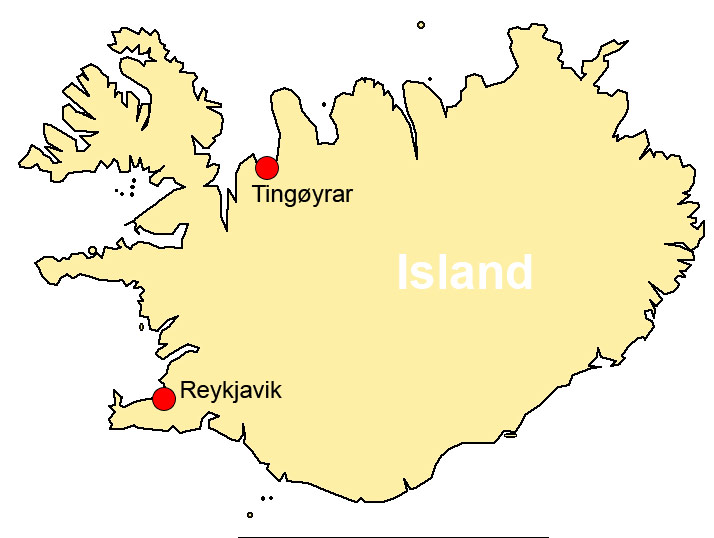 Map over Iceland showing the position of Tingøyrar